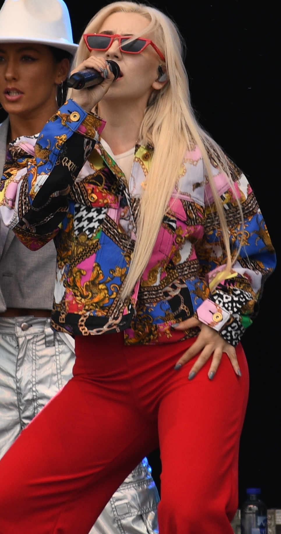 Ava Max at the Rix FM Festival in Gothenburg